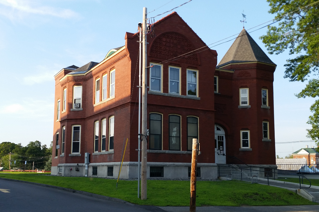 The Skowhegan Free Public Library, Skowhegan, Maine.